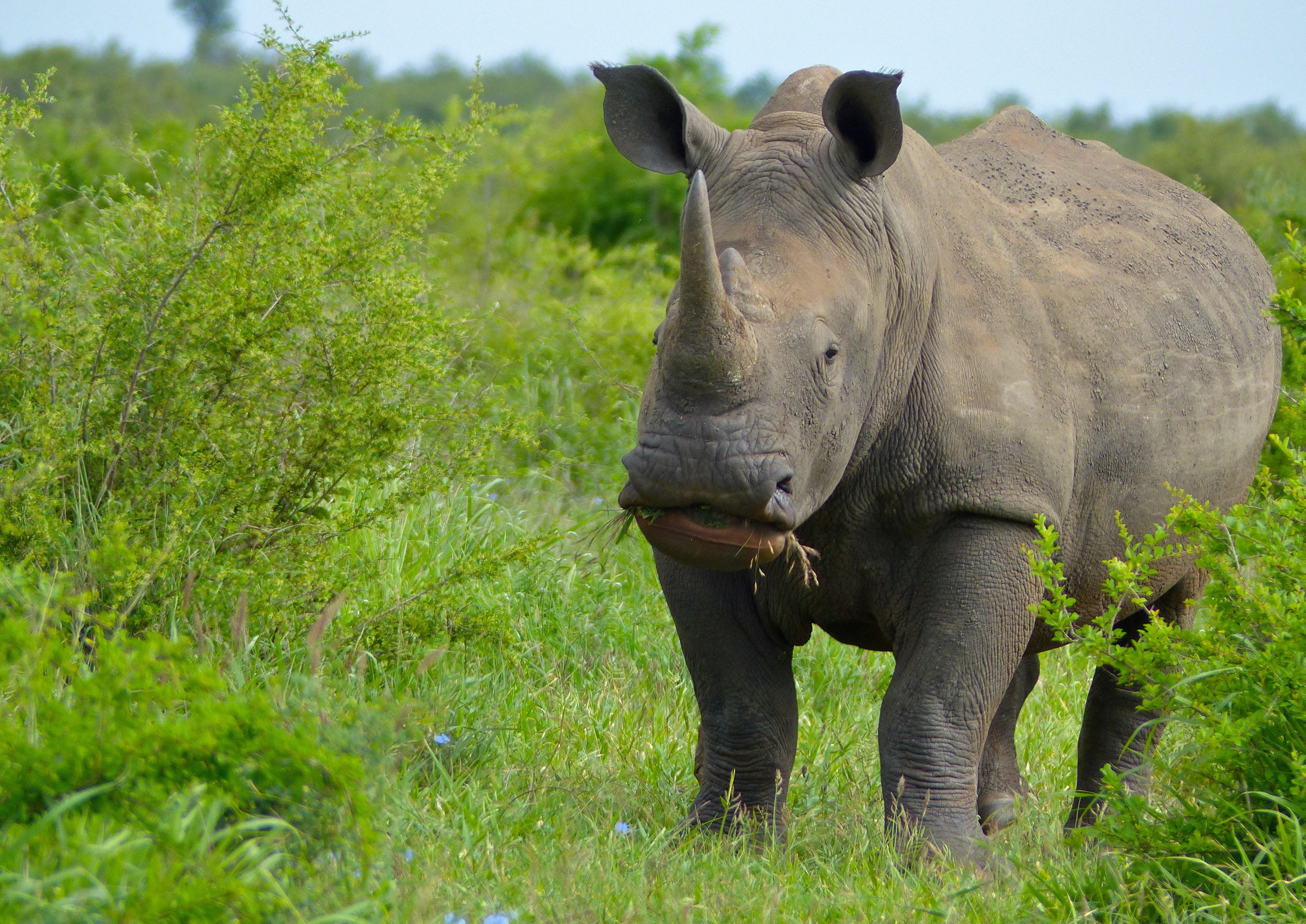 White Rhinoceros (Ceratotherium simum), S137 Road South of Lower Sabie, Kruger National Park, South Africa